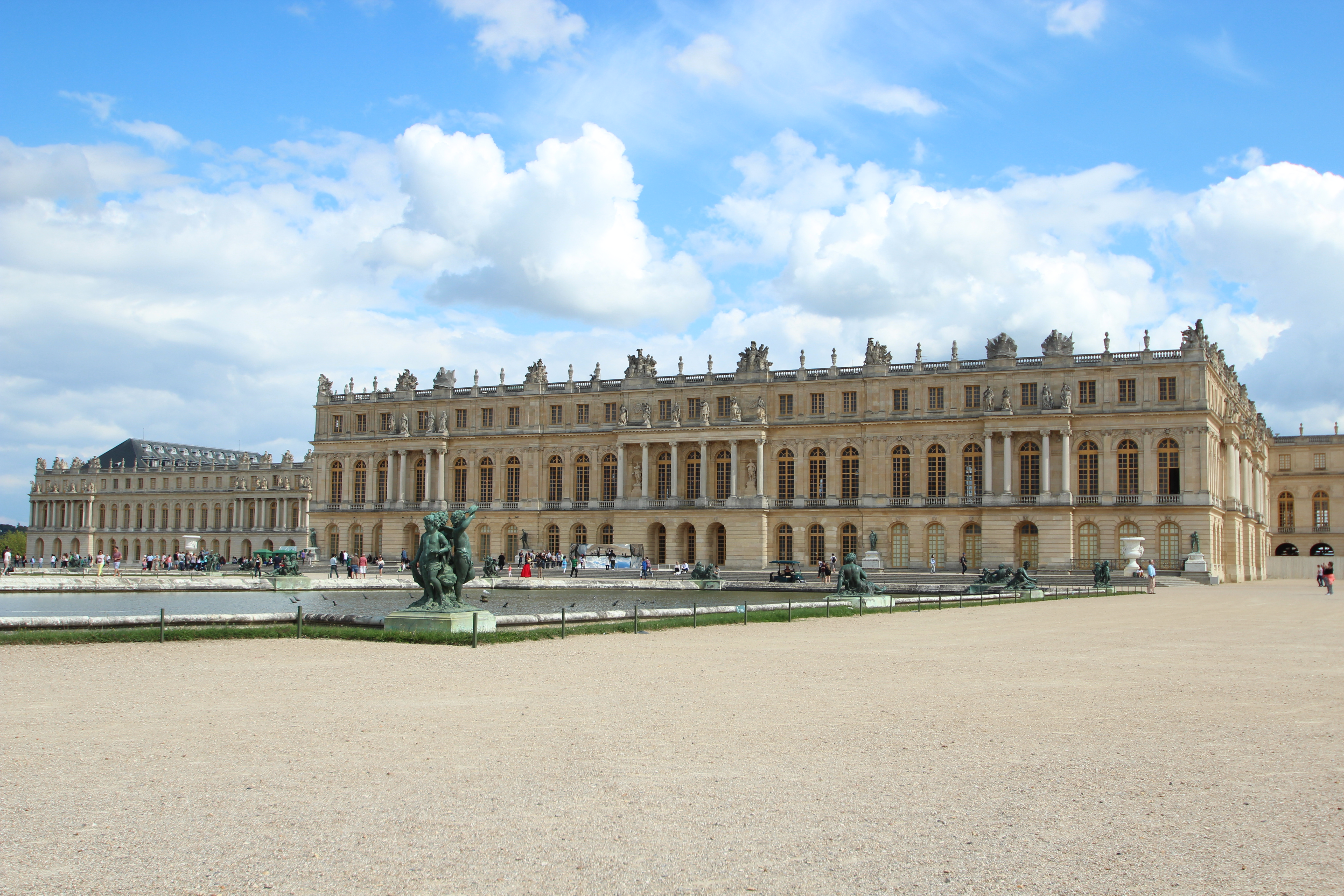 Park of the Palace of Versailles, France. Object location48° 48′ 18.94″ N, 2° 07′ 07.07″ E .